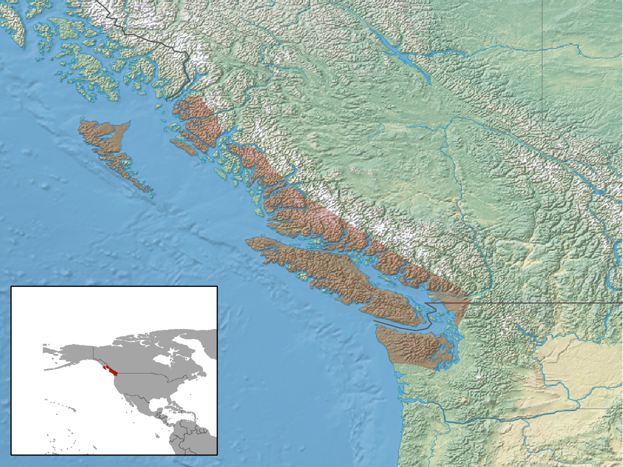 geographic distribution of Myotis keenii